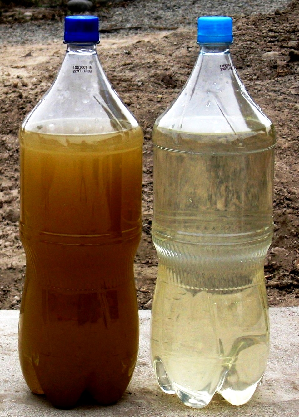 Pre-treated blackwater (left bottle) and effluent of the CW which has the typical brownish colouration caused by humic acid (right bottle). Photo by: Heike Hoffmann, 2008.